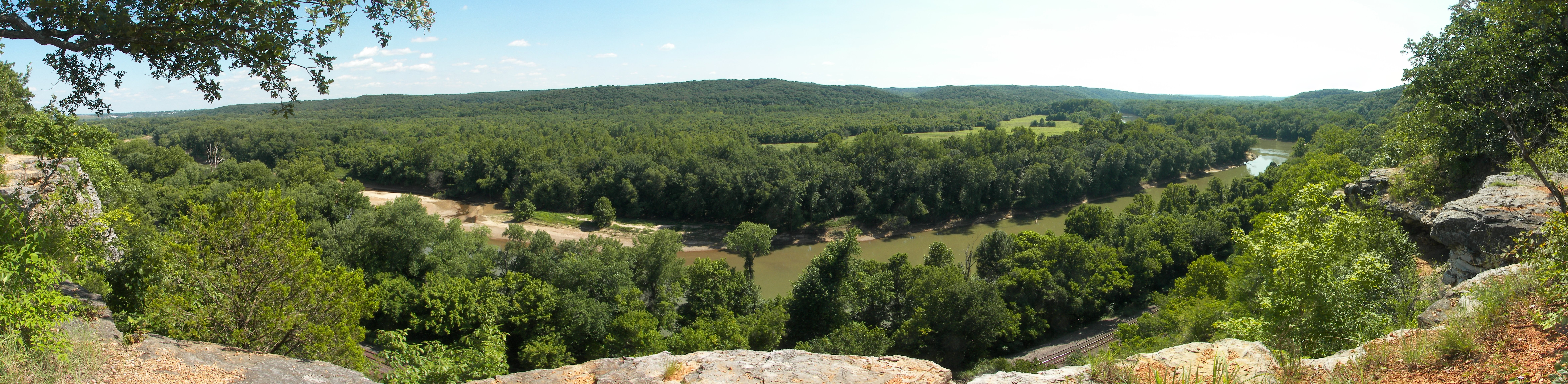 A panorama of the Meramec River valley looking toward the south from atop the bluffs at Castlewood State Park in Missouri near St. Louis. Across the river are more of the same park and Lone Elk County Park. To the west (right) are Tyson Research Center, West Tyson County Park, and Route 66 State Park. These protected areas, along with additional state conservation lands, create a large greenway named the Henry Shaw Ozark Corridor. This image is a composite of 12 images encompassing approximately 180° horizontally.